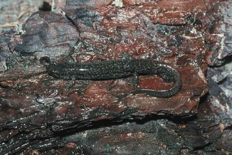 Southern Dusky Salamander Desmognathus auriculatus